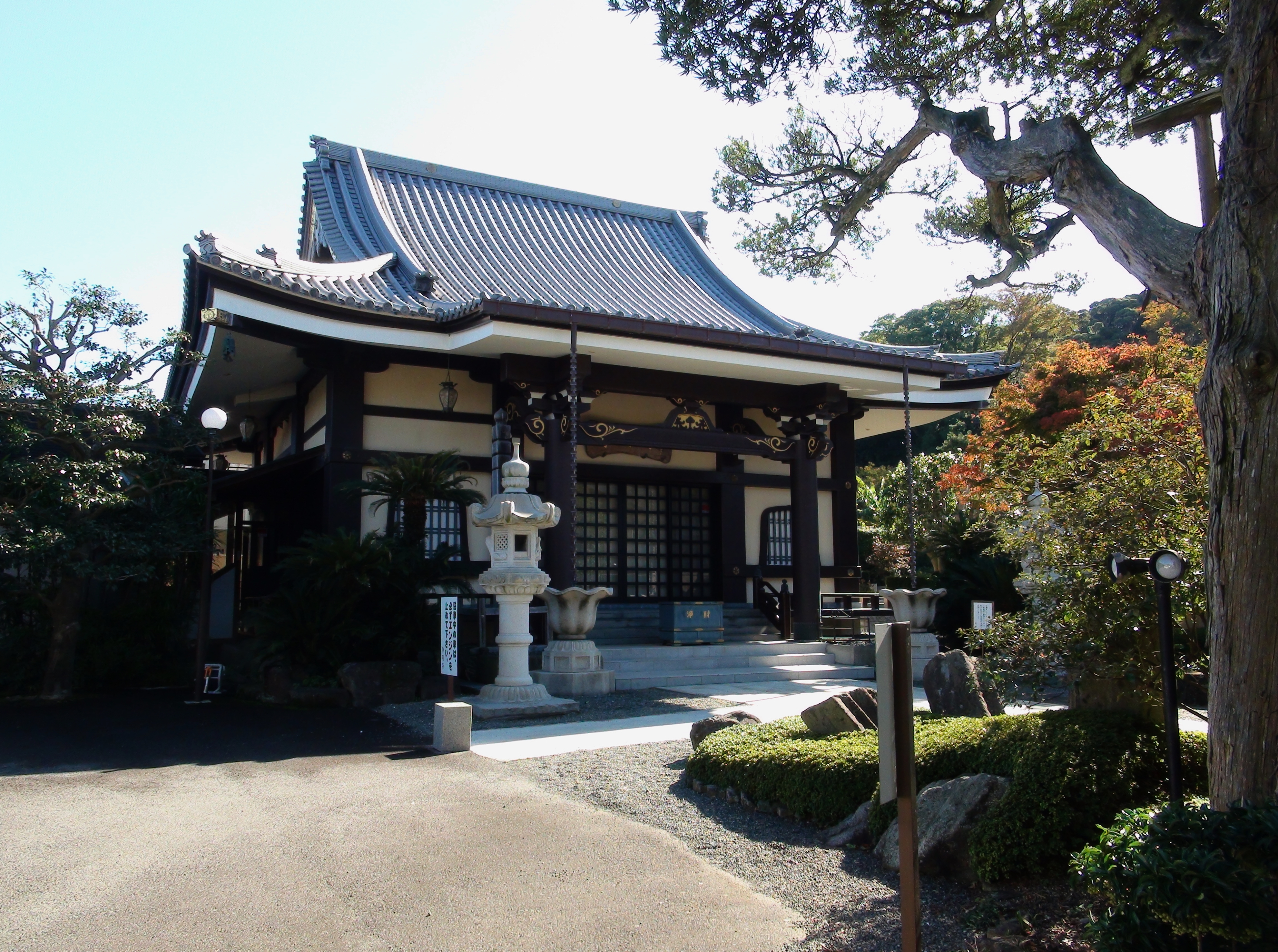 Joen-ji Temple Ito city